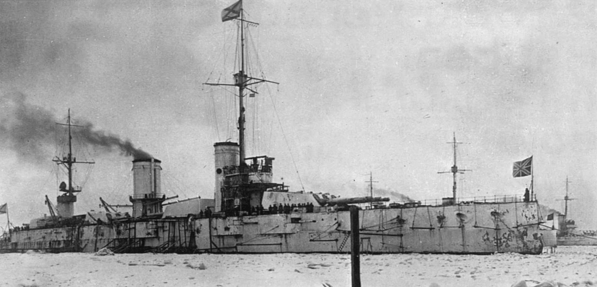 Imperial Russian battleship Petropavlovsk in Helsingfors.